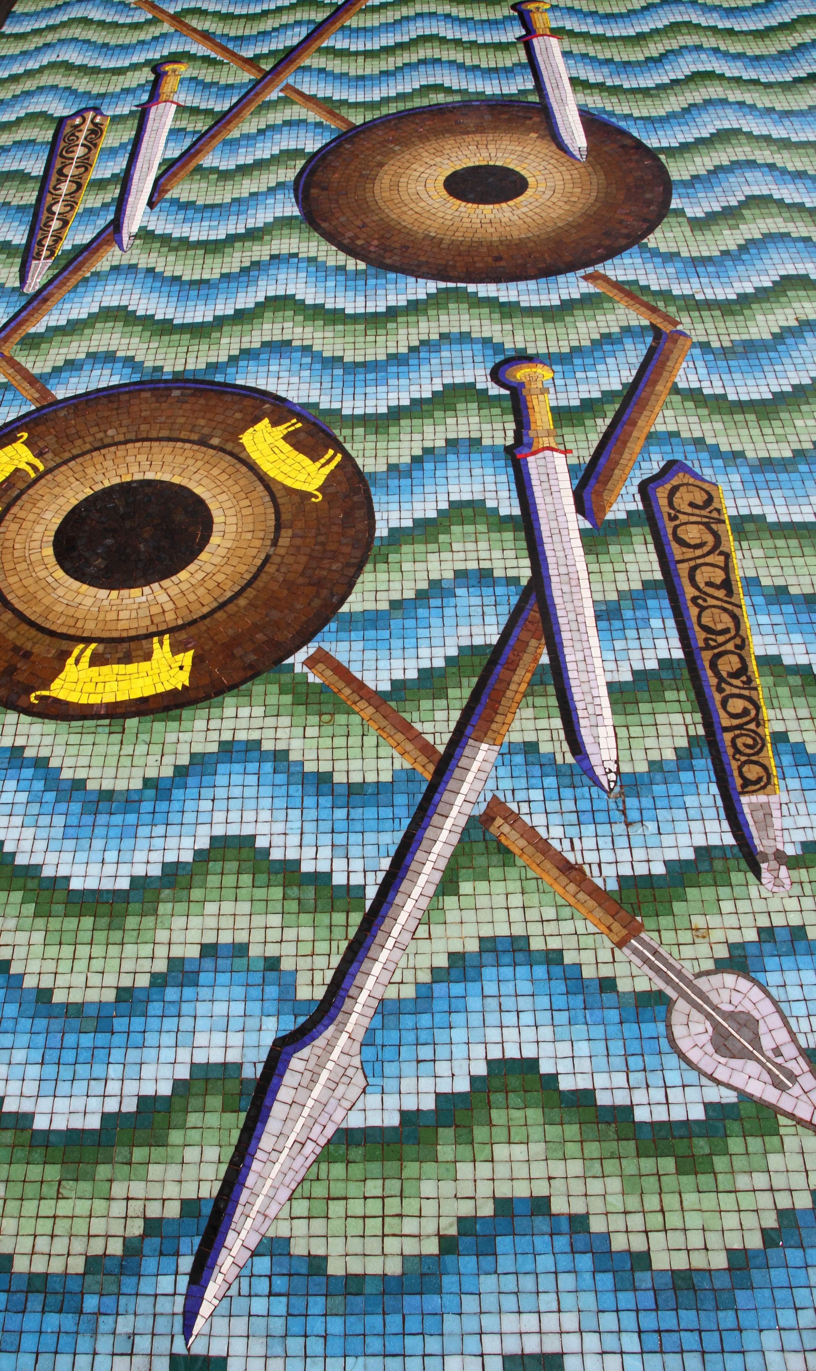 Garden of Remembrance Dublin. Part of the tile mosaic feature. In Celtic custom, on concluding a battle, the weapons were broken and cast in the river. This was to signify the end of hostilities.